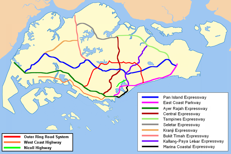 Map of the expressways and semi-expressways of Singapore.